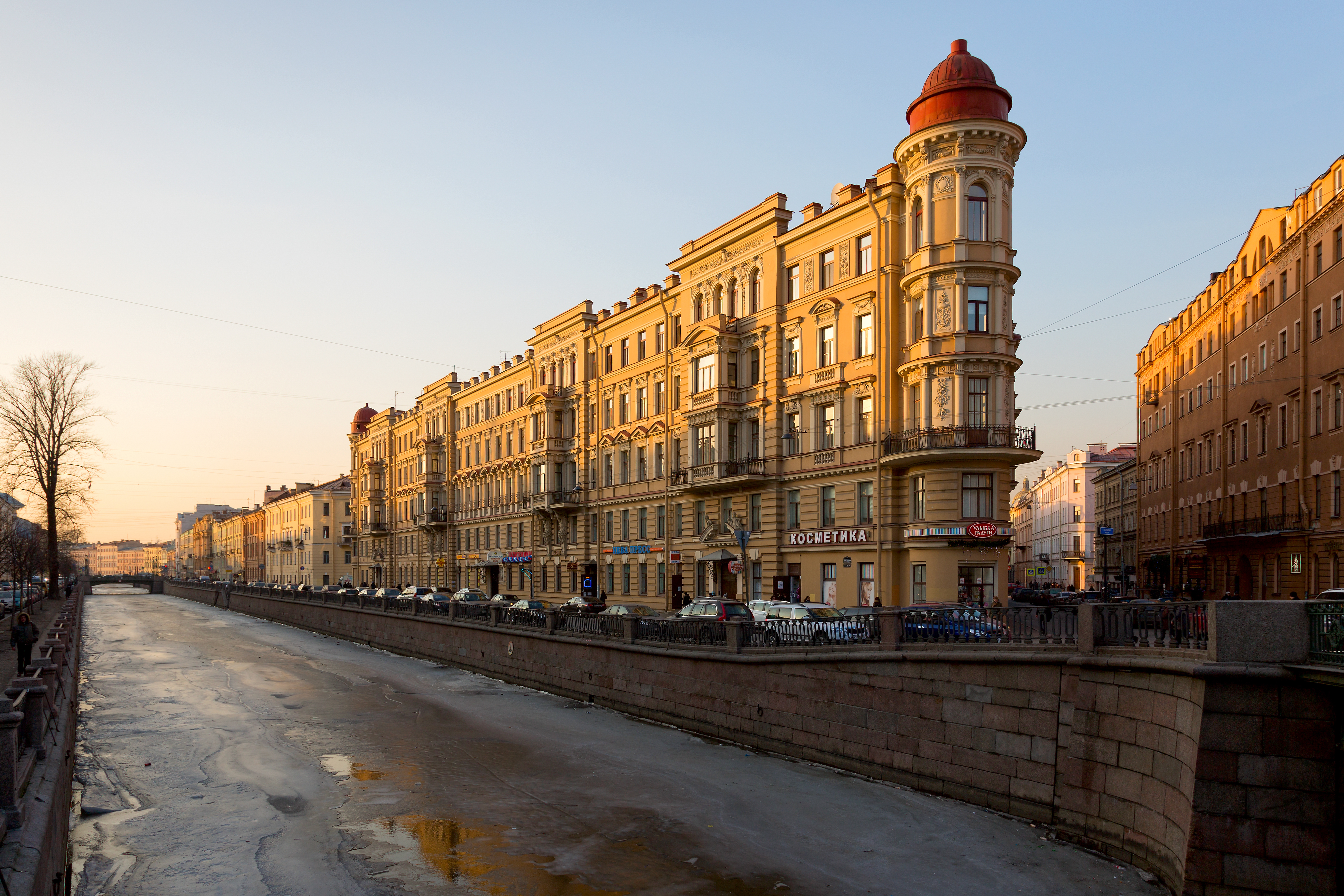 Griboedov Canal Embankment in Saint Petersburg